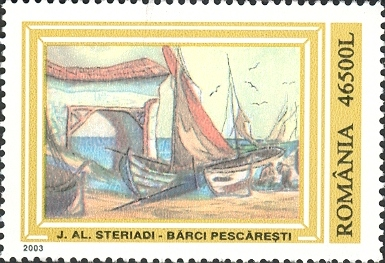 Stamps of Romania, 2003